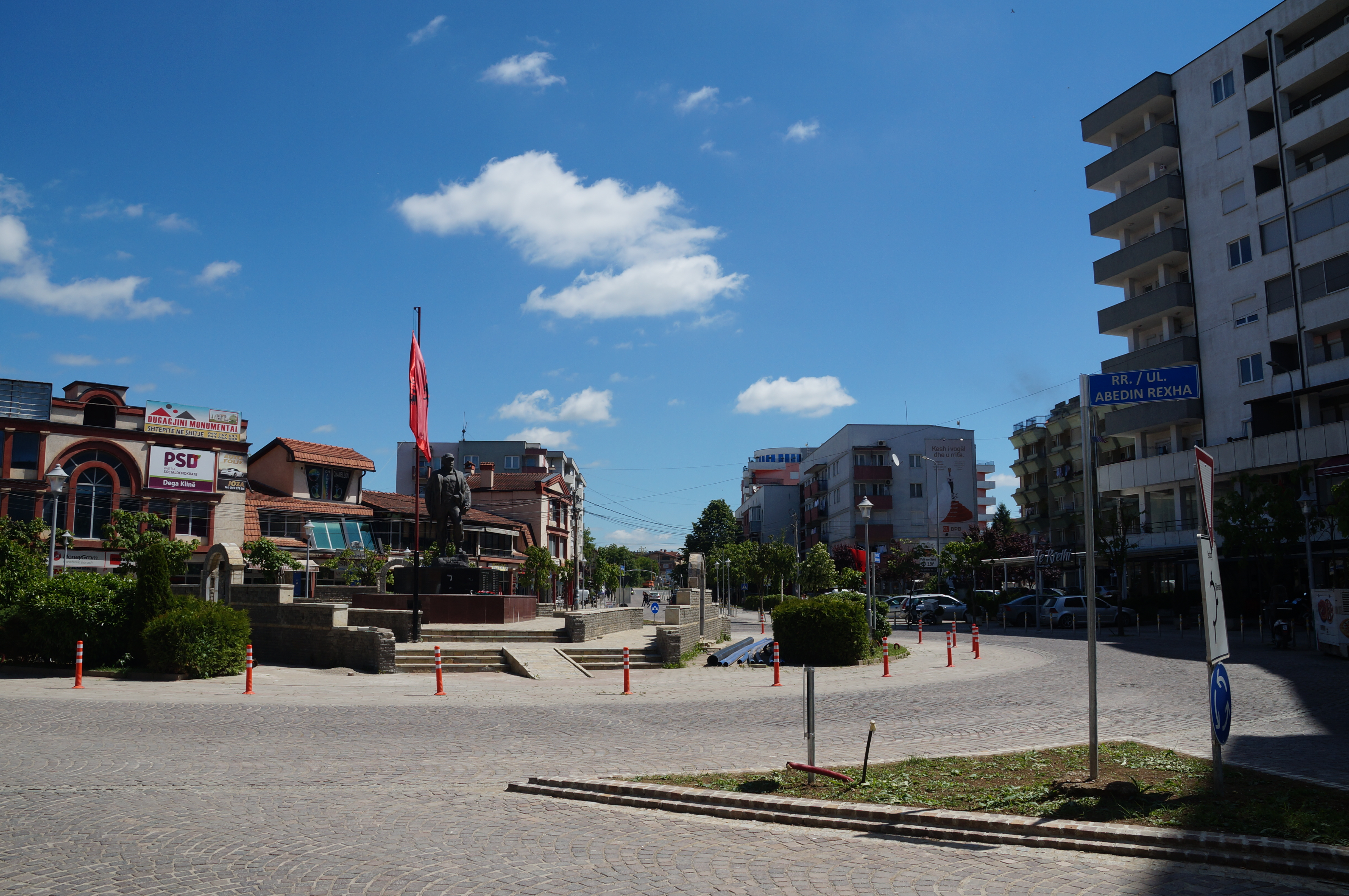 City center of Klina, Kosovo